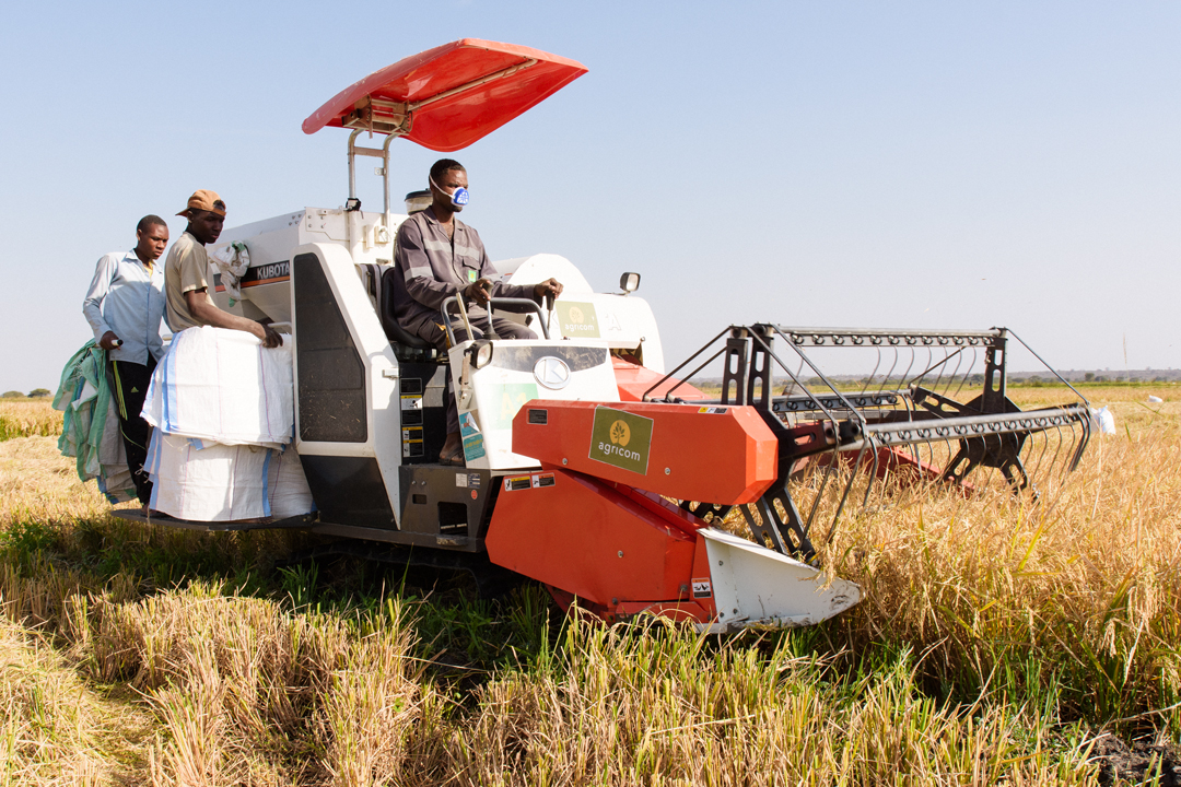 Farmers using a Rice harvester to harvest rice in Igunga, Tabora, Tanzania This is an image of "African people at work" from Tanzania